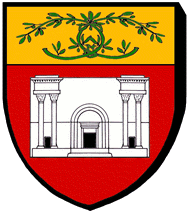 Present coat of arms of Guelma